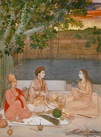 Three women – a hermit (female sannyasi) with her two companions – are sitting by the tree on the garden terrace at sunset. The lady is sitting on a lion skin, states Ewa Czepielowa, and is holding a rosary in her hands. She has a turban on her head and a large earring of the Kanphata sect in her ear (Nath yogi). In front of the women there is fan made of peacock feathers, as well as some fruit and drinks. There is a bonfire. One is writing, using a devanagari script. In the distance there is a walled city, with carriages and riders approaching the city gate, as well as pedestrians fleeing from the dusk. A painting from the end of the 17th century, showing customs and religion. For more details, see source below and explanation by Ewa Czepielowa This is a derivative work (cropped) of the original file available on Wikimedia commons: India Female eremite.jpg